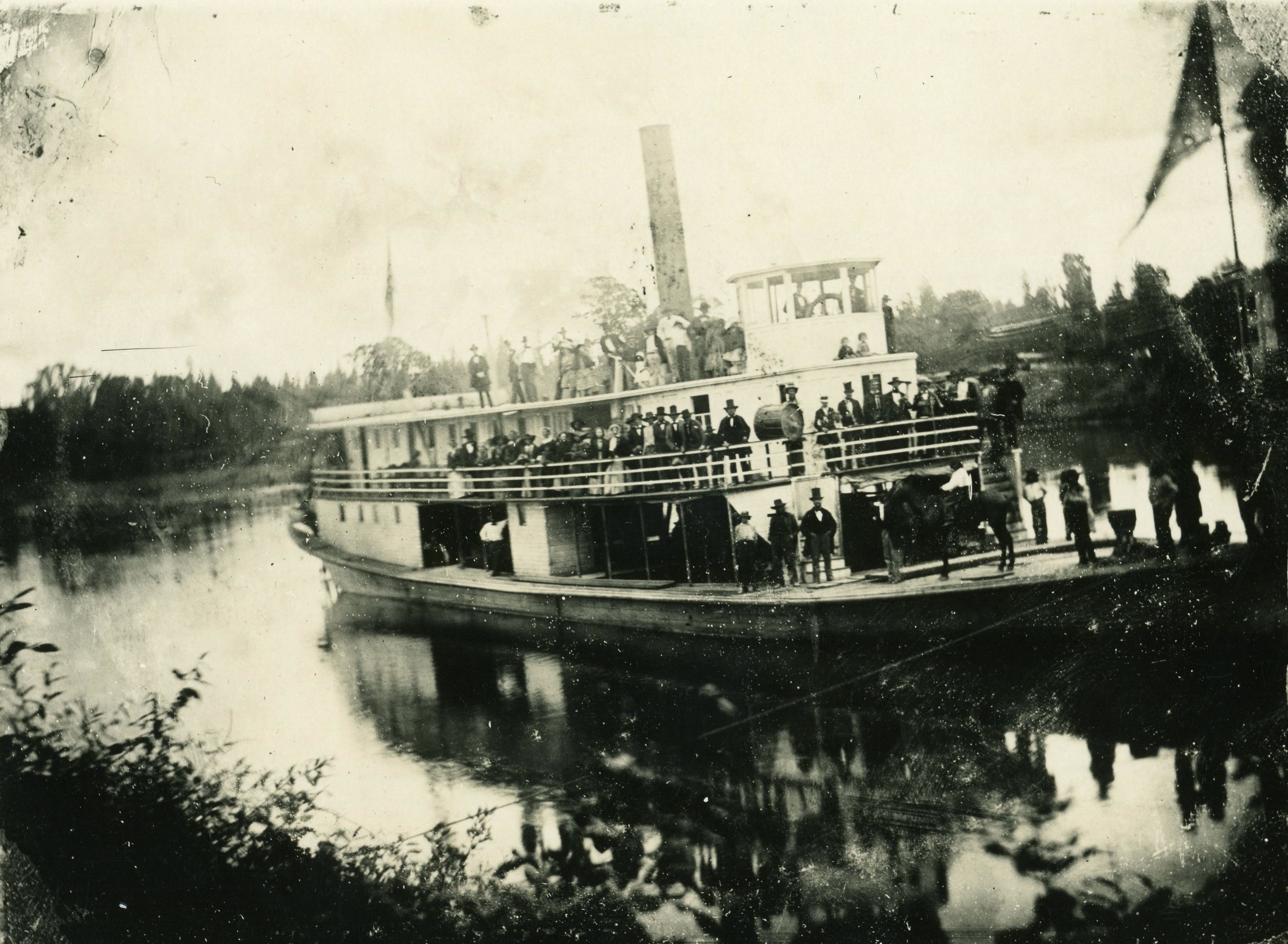 Steamer Onward, built at Tualatin River Landing, in Oregon, in 1867.